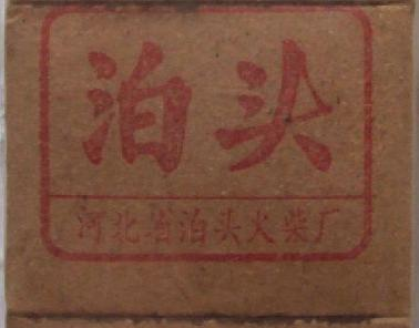 Botou Match